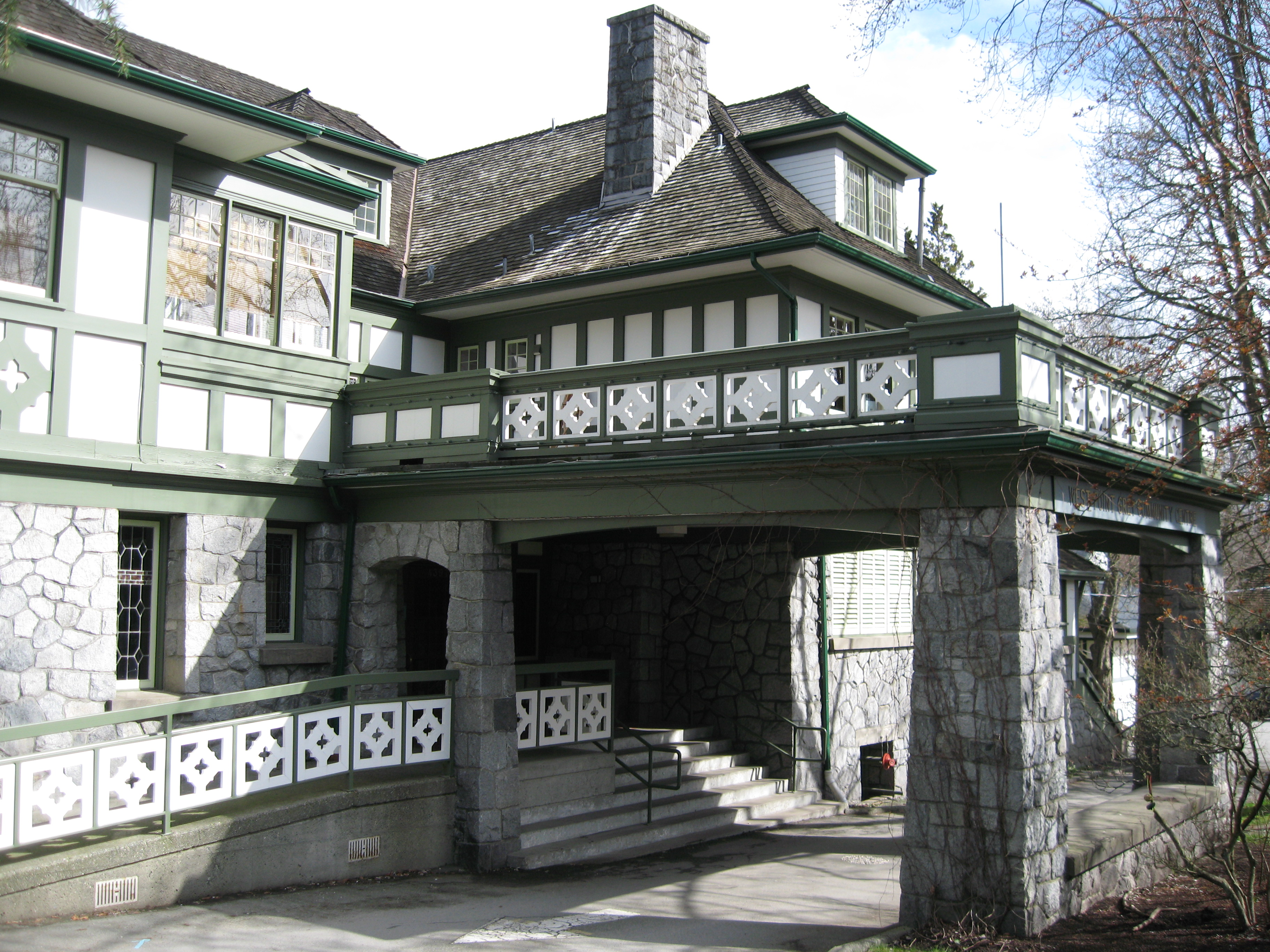 The front of Aberthau Mansion in Vancouver B.C.